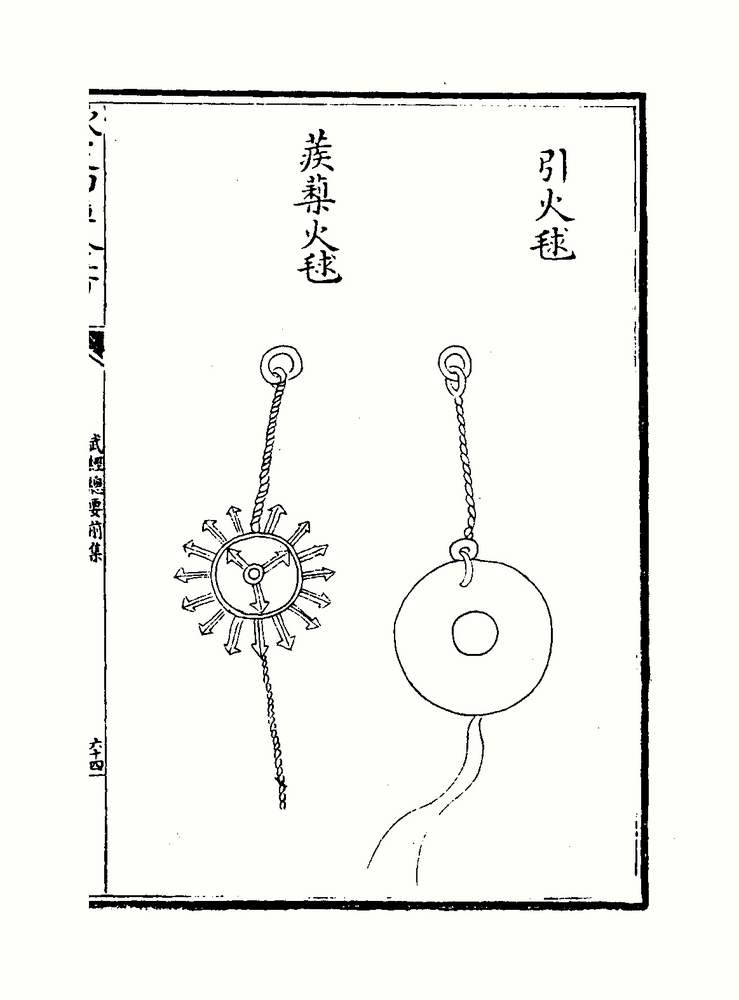 Fire ball diagram in Wujing Zongyao